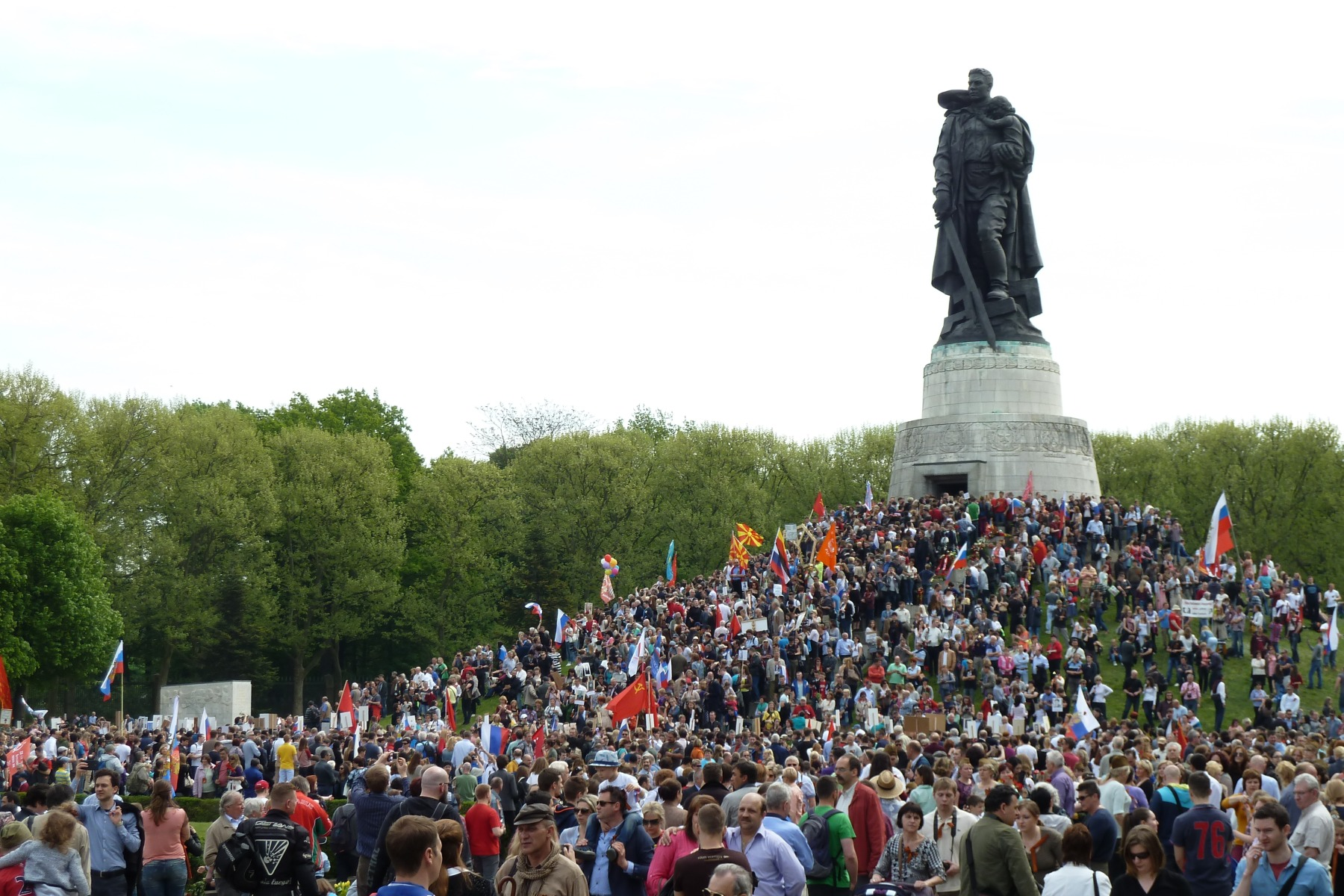 the Soviet War Memorial in Treptow in Berlin, Germany, on the 9th of May 2015, the 70. anniversary of the (russian) victory day